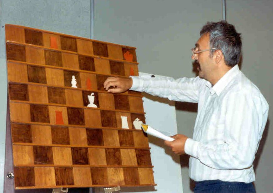 Jan Rusinek – chess study composer, ARVES-meeting on the occasion of the PCCC-session 1991 in Rotterdam